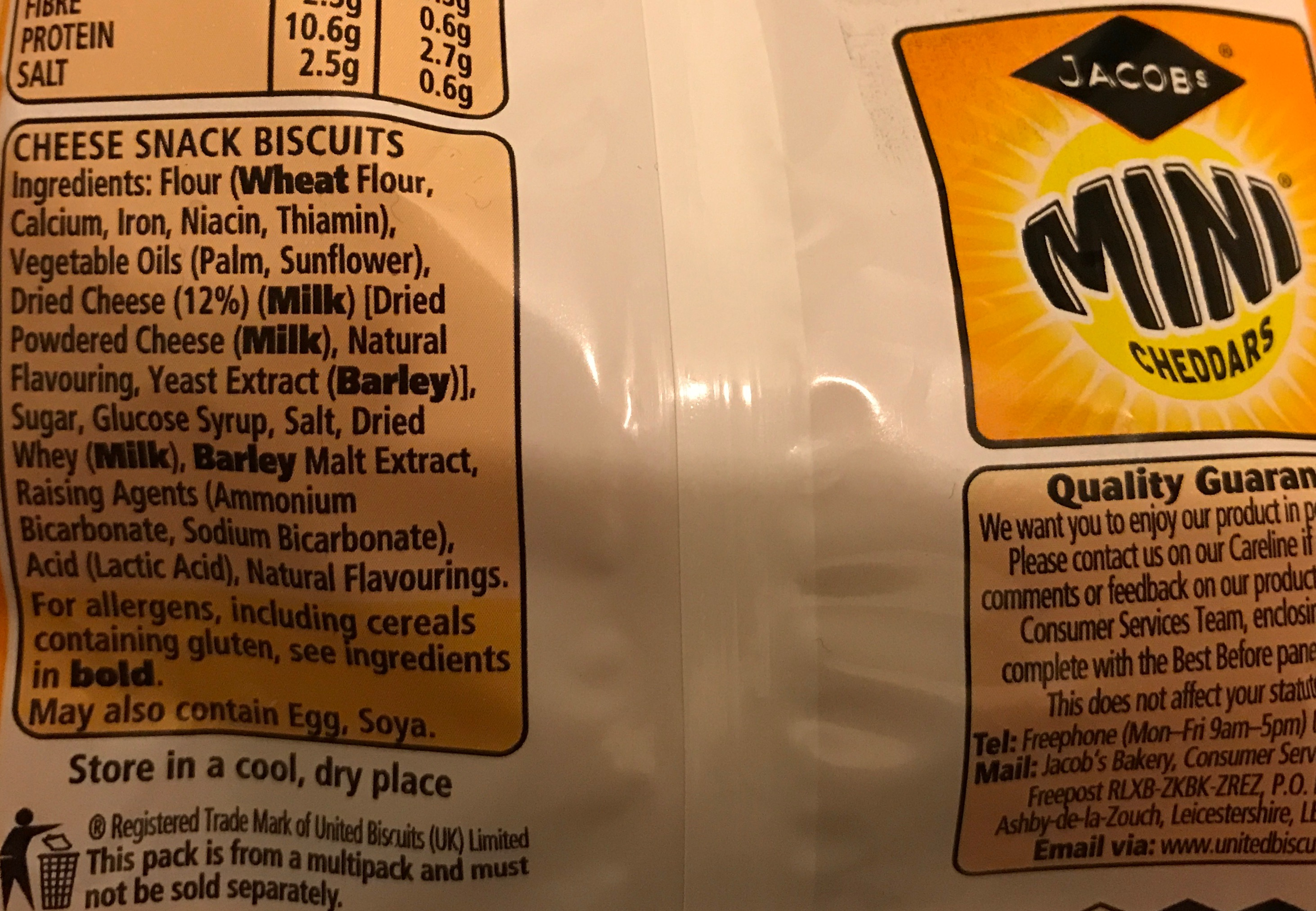 Rear of a packet of Original Flavour Mini Cheddars clearly stating the description as "Cheese Snack Biscuits"